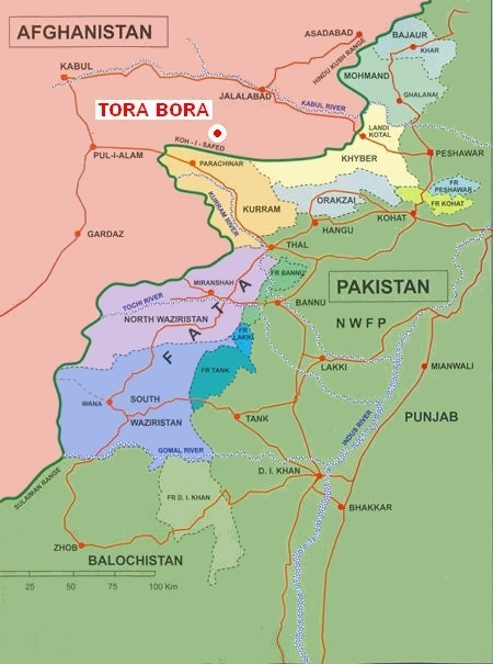 Tora Bora